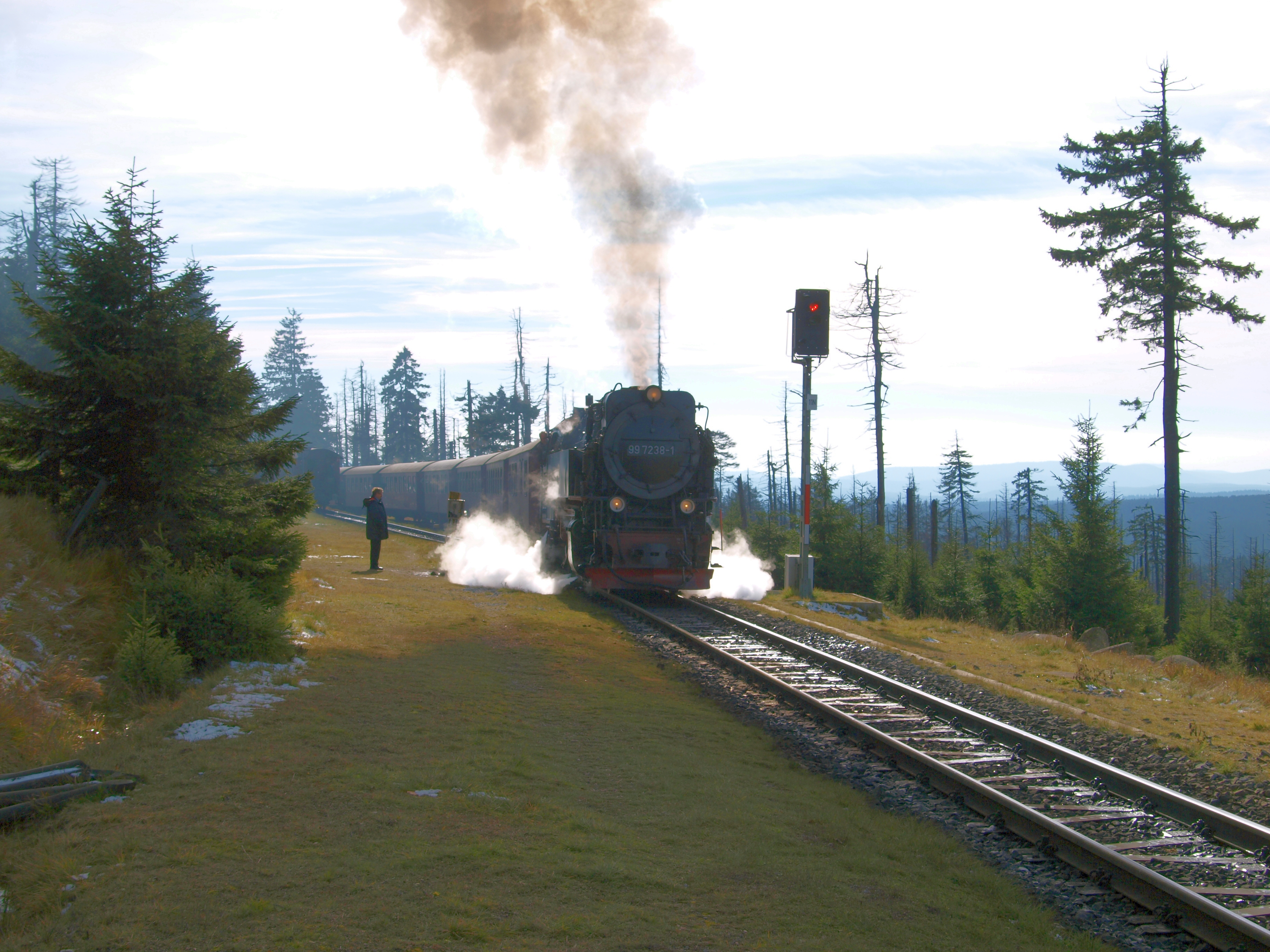 Railwaystation Goetheweg